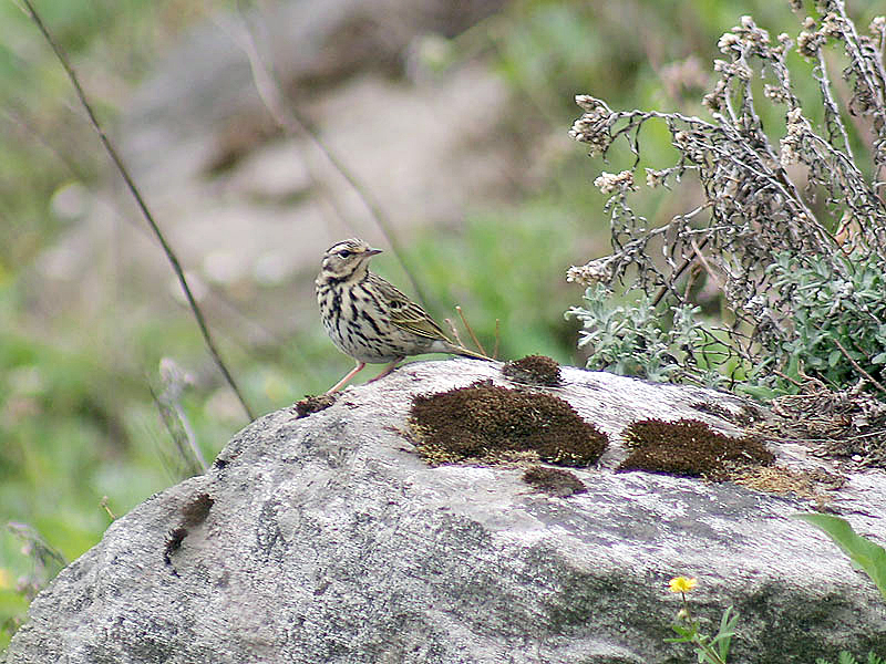 Olive-backed Pipit Anthus hodgsoni in Kullu District of Himachal Pradesh, India.